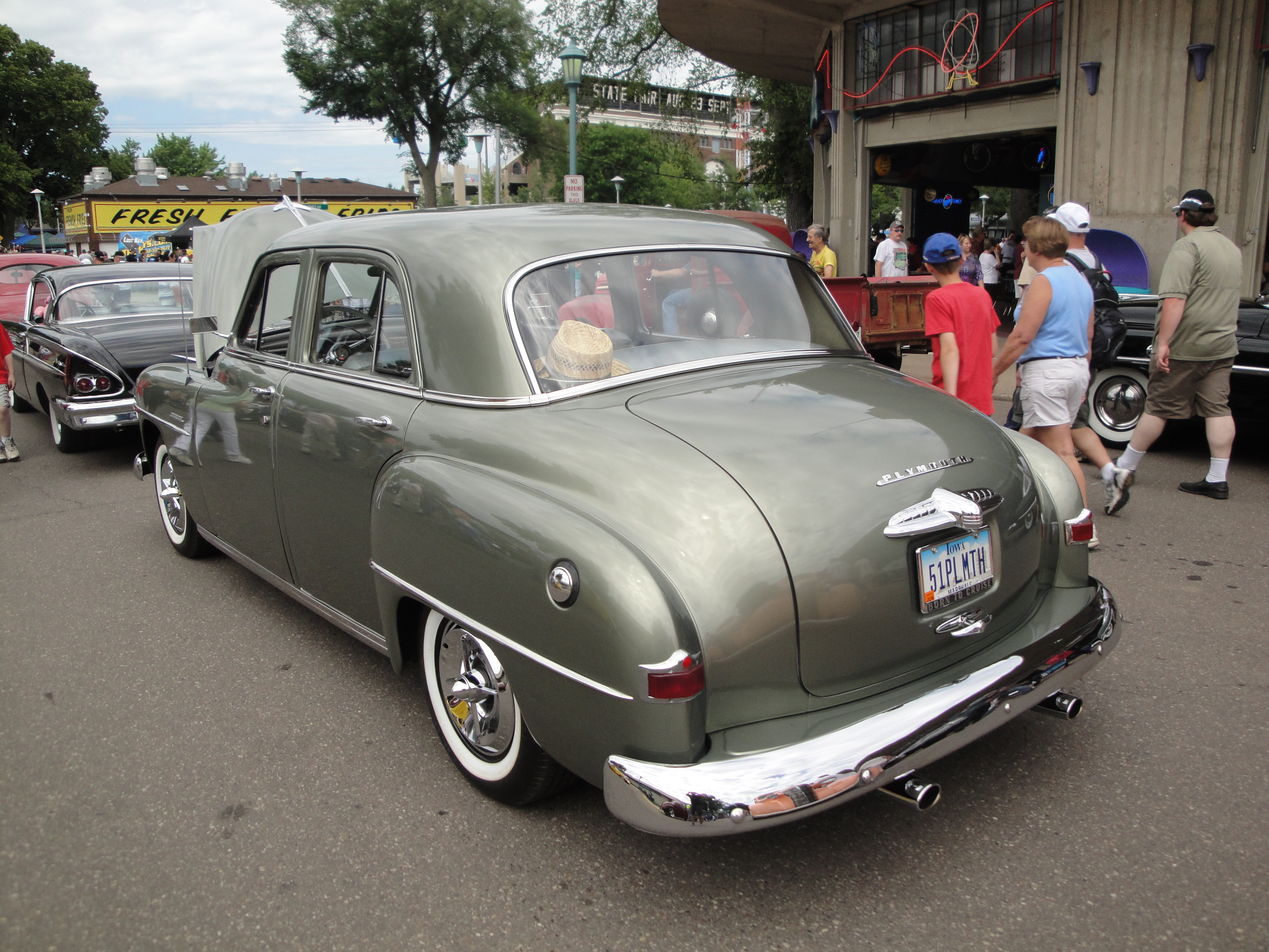 Plymouth Special Deluxe Sedan, 1951. Minnesota Street Rod Association 39th Annual "Back to the Fifties" June 2012 Minnesota State Fairgrounds St. Paul MN